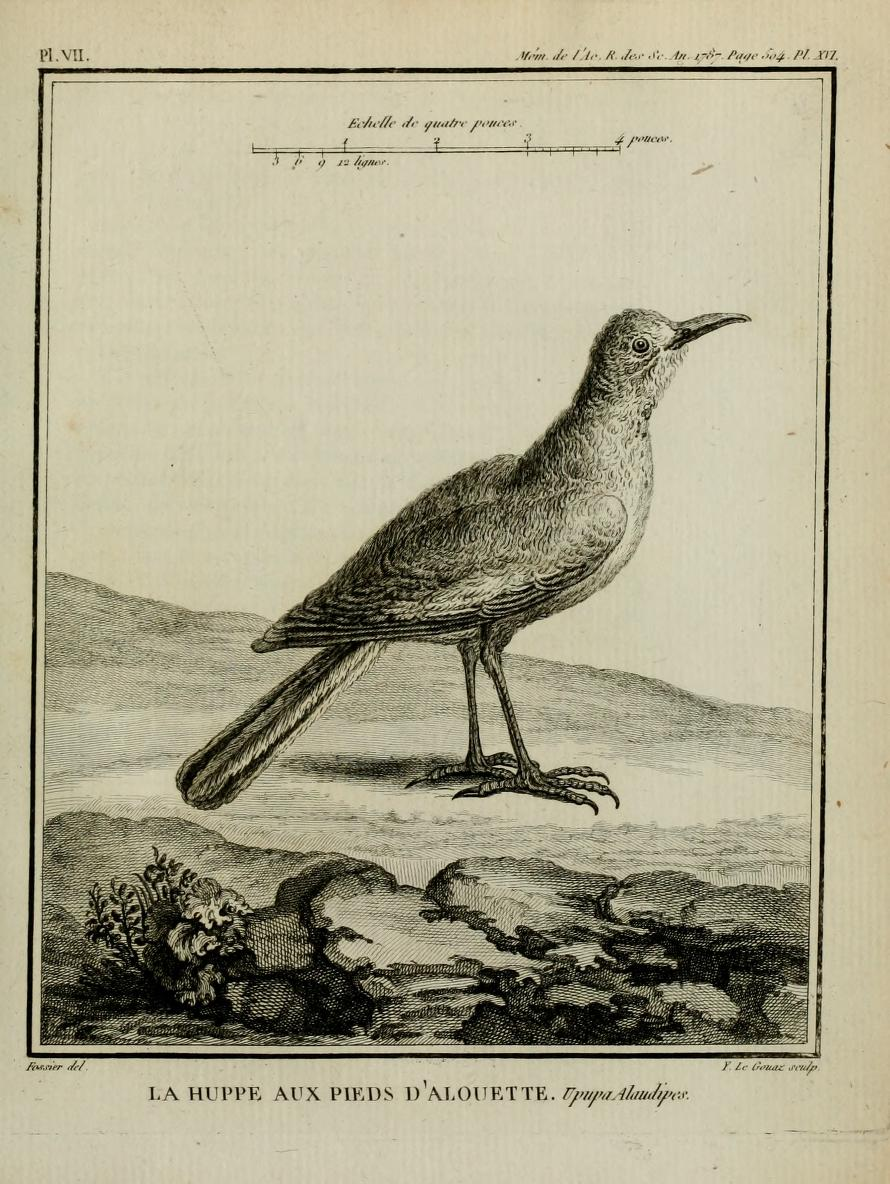 Greater Hoopoe-lark (Alaemon alaudipes), holotype depiction